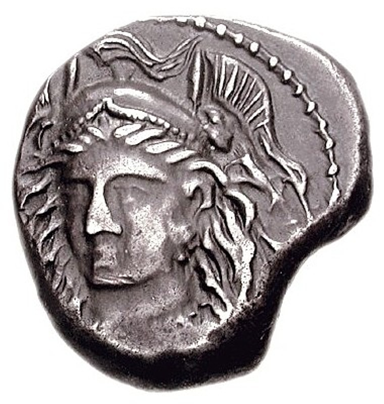 Italy,Etruria, Populonia. 3rd century BC. AR 20 Asses (8.39 g). Head of Menrva facing slightly left, wearing triple-crested Attic helmet; [X X flanking neck] ‘pupluna’ in Etruscan alphabet, star of four rays within crescent. Vecchi II 79.4 = Sambon, Les monnaies antiques de l’Itale, 65a = BMC p. 396, 1 (this coin); HN Italy 158; SNG France 24 (same dies); SNG Lloyd 8 (same dies); Basel 13 (same dies); McClean 133 (same dies); Hirsch 15 (same dies). Good VF, toned, double struck and a couple scratches under tone on reverse. Very rare. "A coin from the British Museum Duplicate